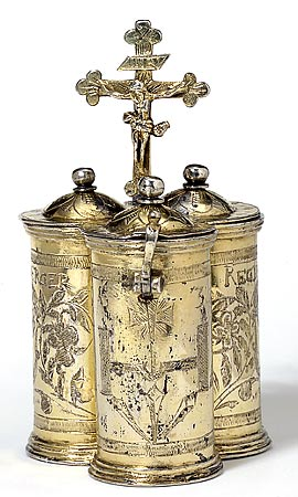 This chrismatory is made up of 3 compartments containing holy oils used in the Catholic Church for ritual anointing: Oleum Infirmorum used for the sick, Oleum Catechumenorum used at baptism and Chrisma used for confirmation and ordination. A priest would carry a chrismatory with him when visiting a sick member of his community.